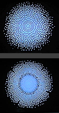 Examples of dynamic optical feedback image on television monitor. Uploaded by permission from Robert E. Haraldsen ©Profero Grafisk, Norway (User:Profero)